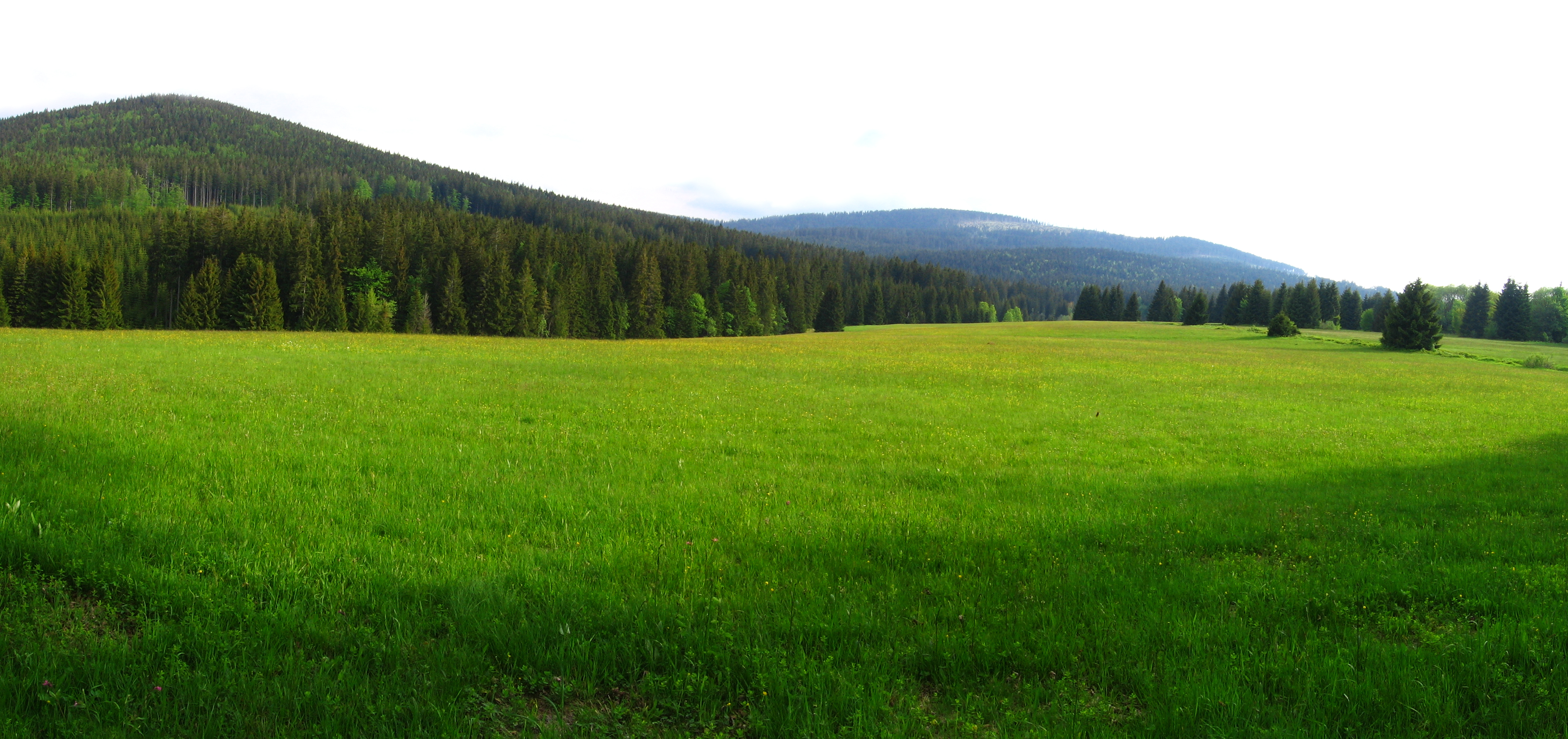 Šumava Place where vilage Hůrka stood. The village was demolished during communism by Cechoslovakian army.